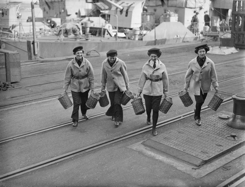 Supplying the Sea-going Ships of the Navy. April 1943, Harwich, the Naval Stores Department at Nore, Which Supplies All Sea-going Ships With the Stores and Provisions That They Need. Wren ratings carrying jars of rum to be issued to ships.